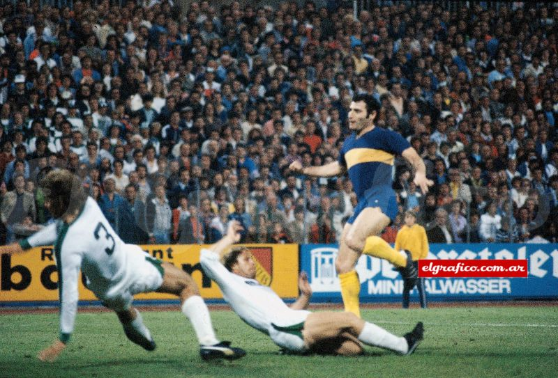 Ernesto Mastrángelo scoring v. Borussia Monchengladbach.